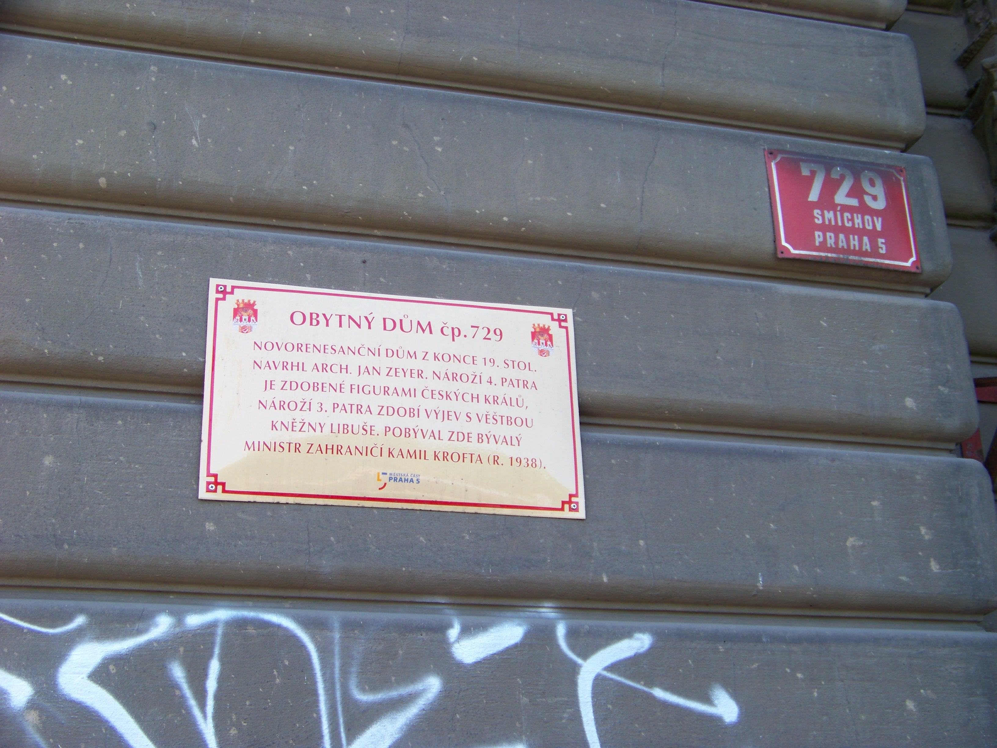 Prague-Smíchov, the Czech Republic. Janáčkovo nábřeží, house No. 729/31, an infoboard.